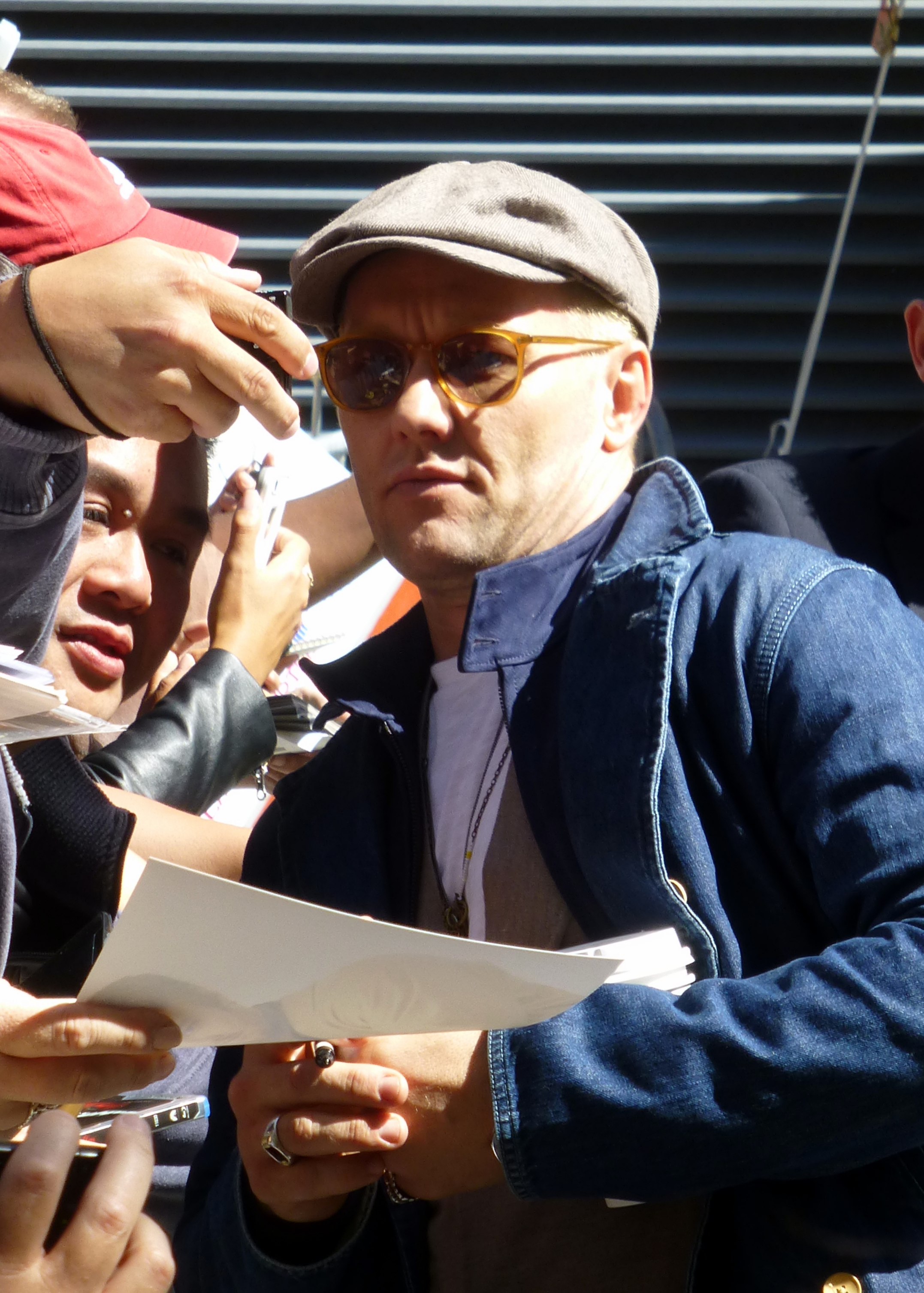 Joel Edgerton at the press conference of Black Mass, 2015 Toronto Film Festival